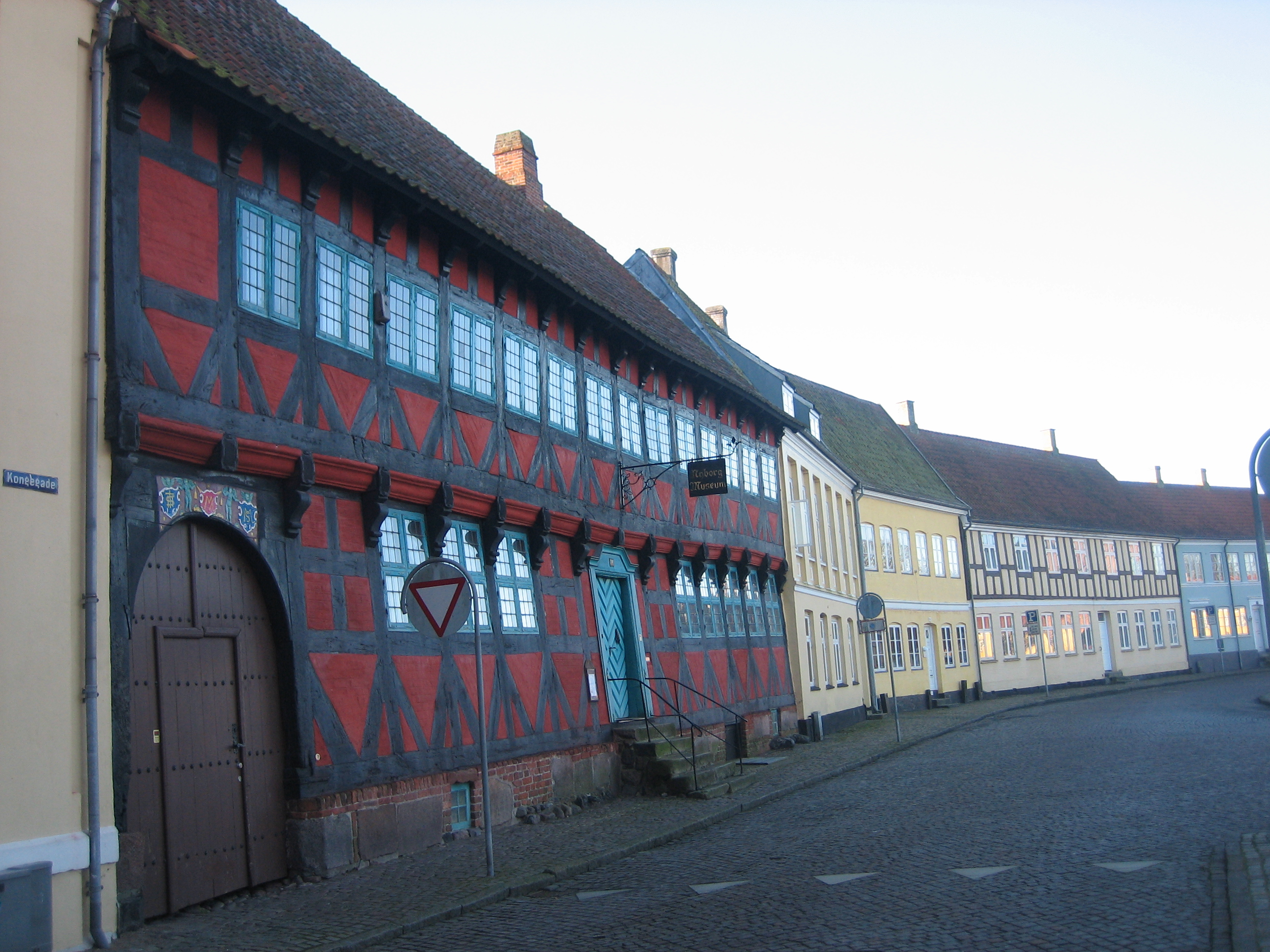 Nyborg town museum: Mads Lerches Gård